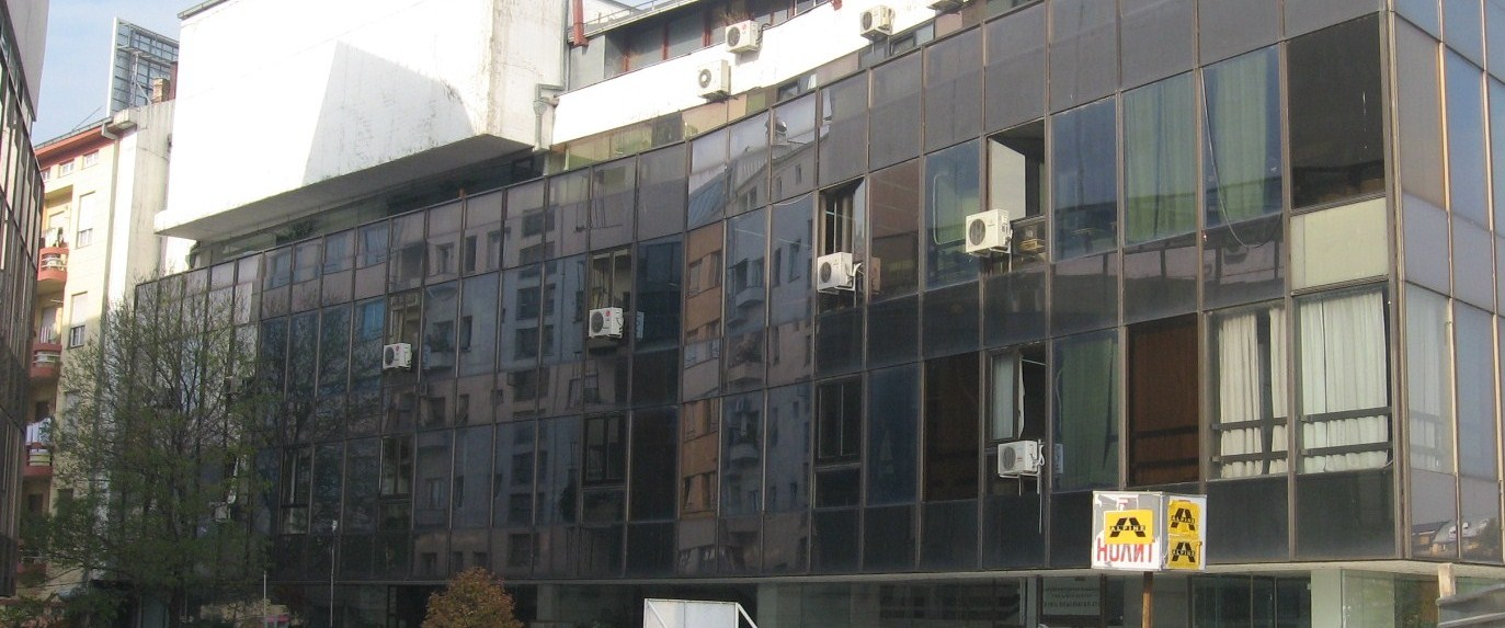 Faculty of music - Skopje